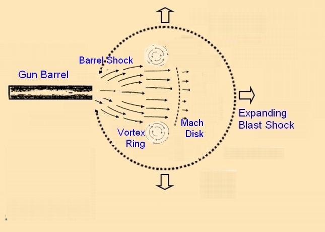 Artist's image of a vortex ring being generated about the shock bottle of an underexpanded supersonic jet stream